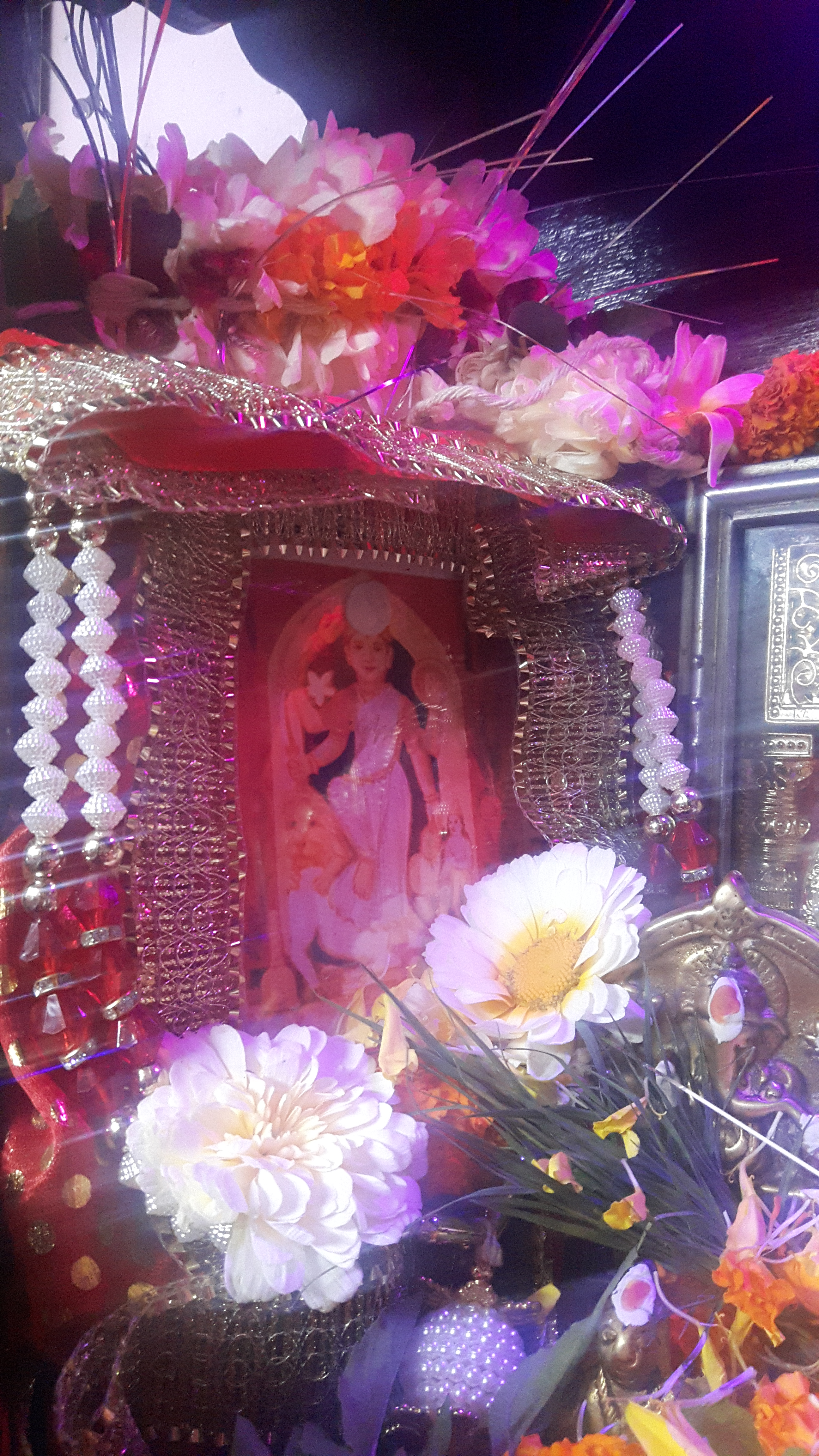 aai